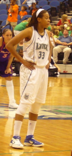 Seimone Augustus playing for Minnesota Lynx in 2007.